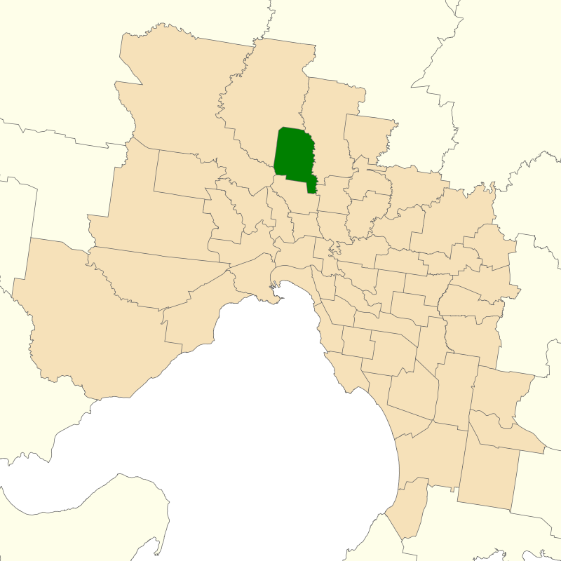 Location of the Victorian electoral district of Broadmeadows (dark green) in the Greater Melbourne area.